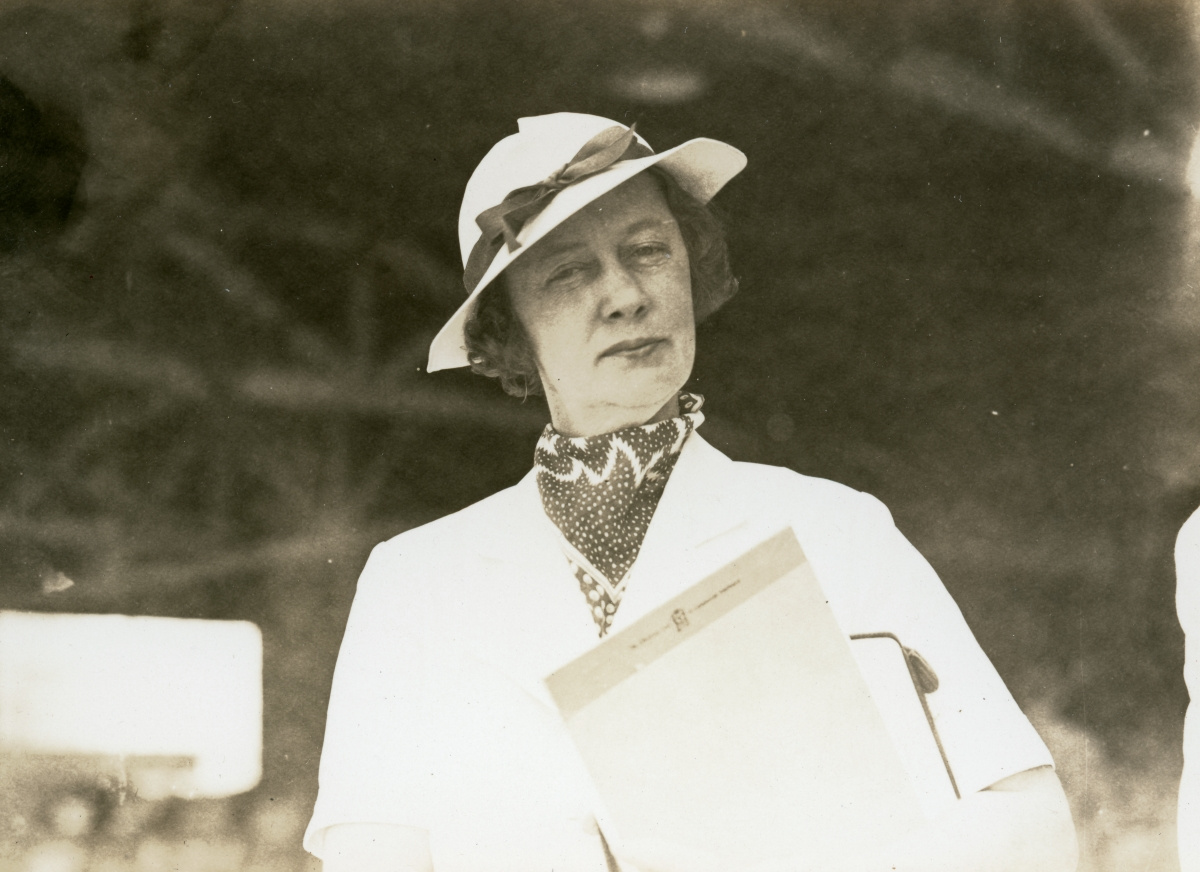 Grace Morrison photographed by William C. Lazarus